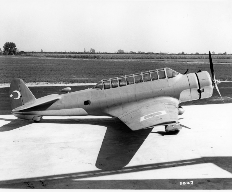 PictionID:45406608 - Catalog:16_006805 - Title:Vultee V-11 General Dynamics Convair Division photo - Filename:16_006805.TIF - Image from the Ray Wagner Collection. Ray Wagner was Archivist at the San Diego Air and Space Museum for several years and is an author of several books on aviation --- ---Please Tag these images so that the information can be permanently stored with the digital file.---Repository: San Diego Air and Space Museum